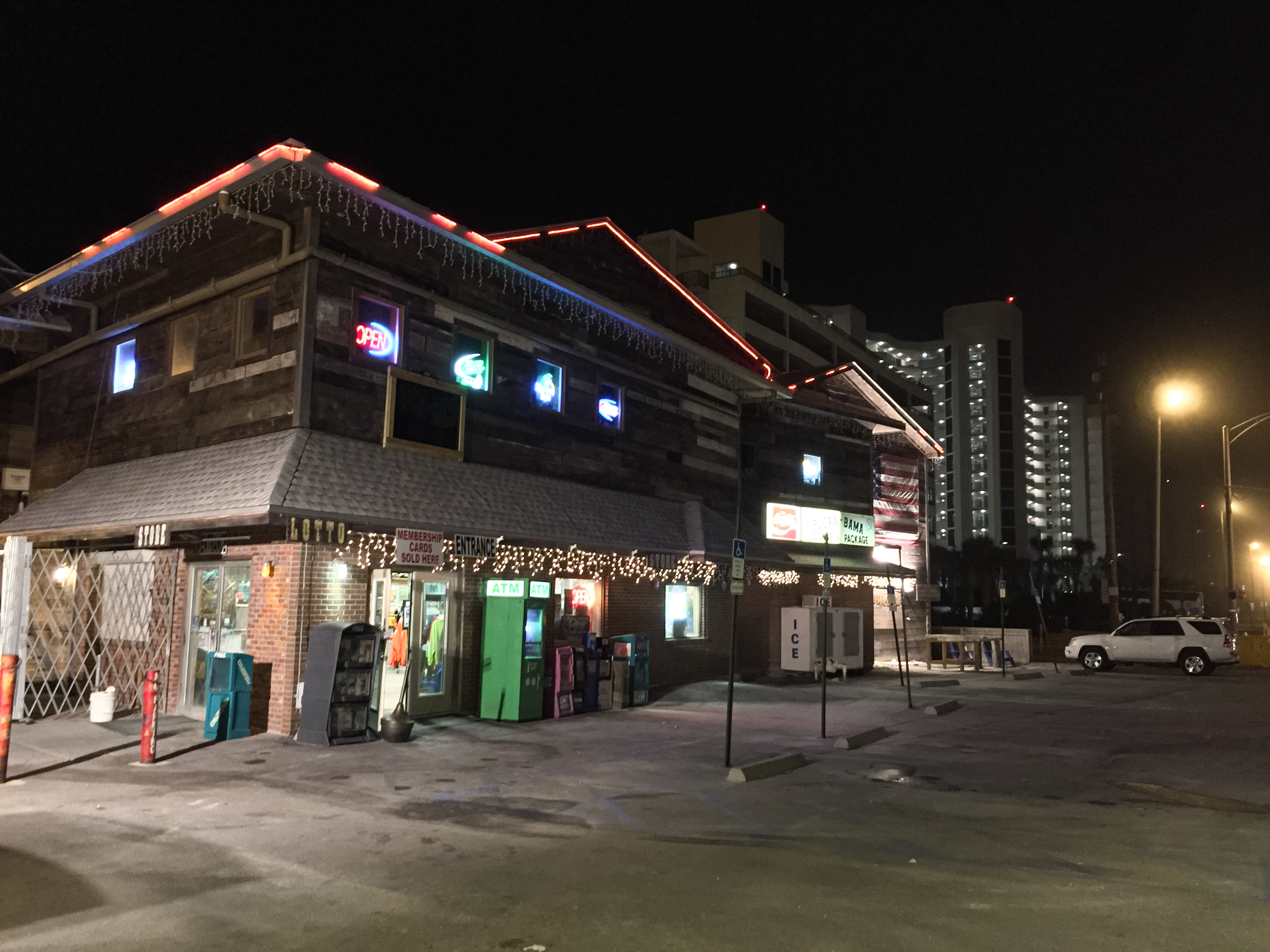 View of the Flora-Bama bar at night near Pensacola, Florida.